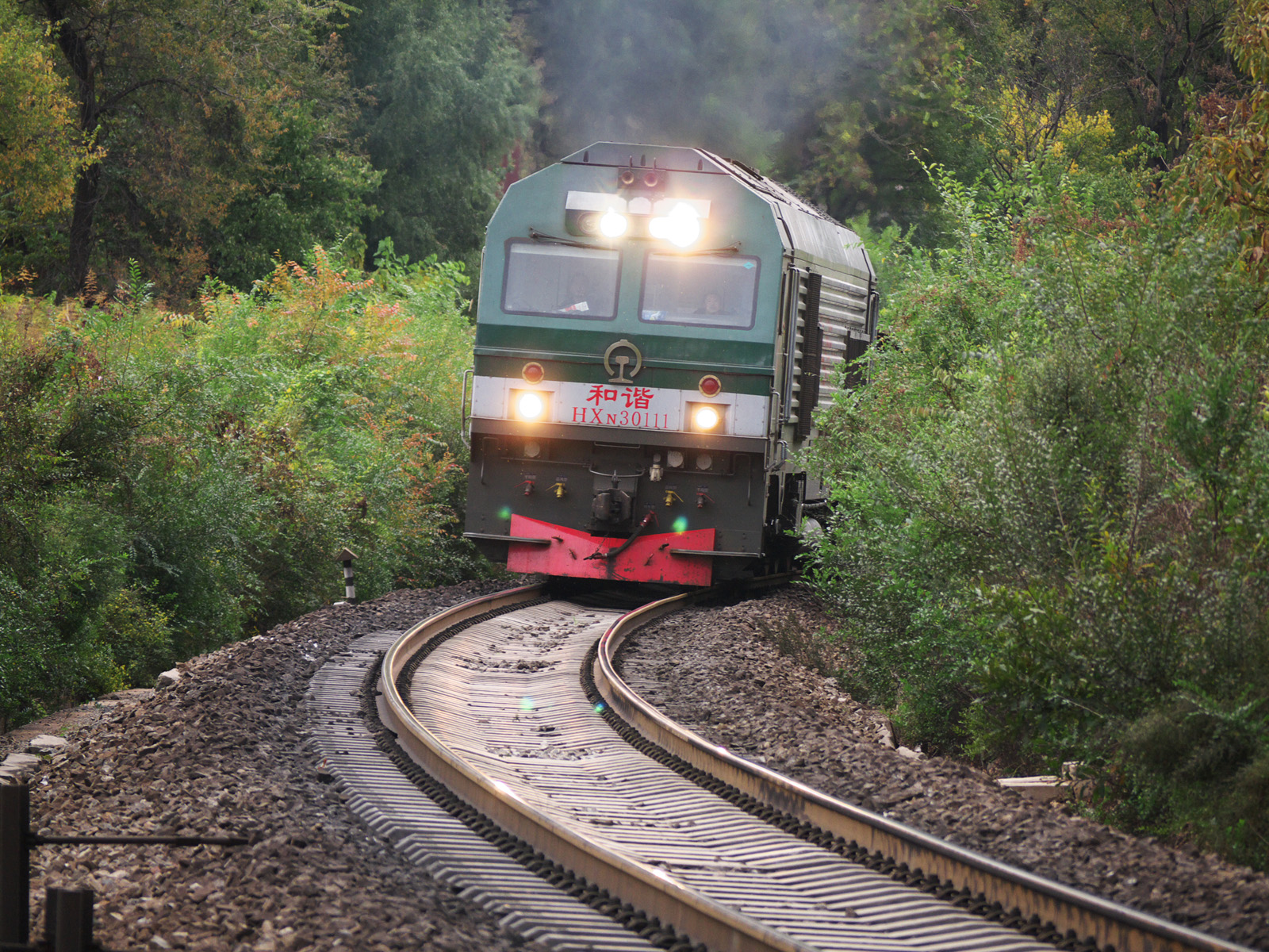 HXN3 Locomotive running on Beijing-Tongliao Railway near Huairou North Station